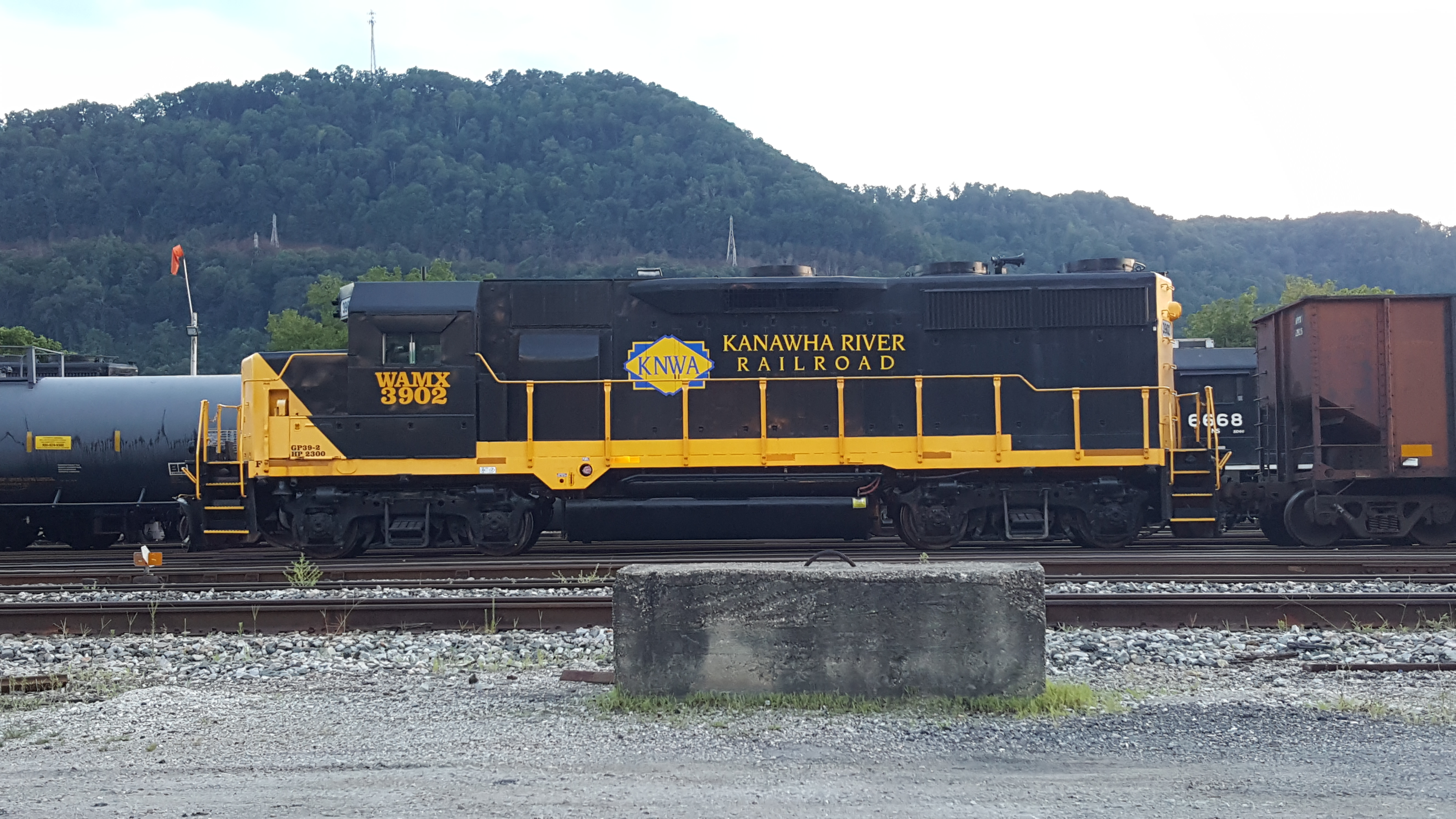 Kanawha River Railroad rail yard near Dickinson, West Virginia. WAMX no. 3902.